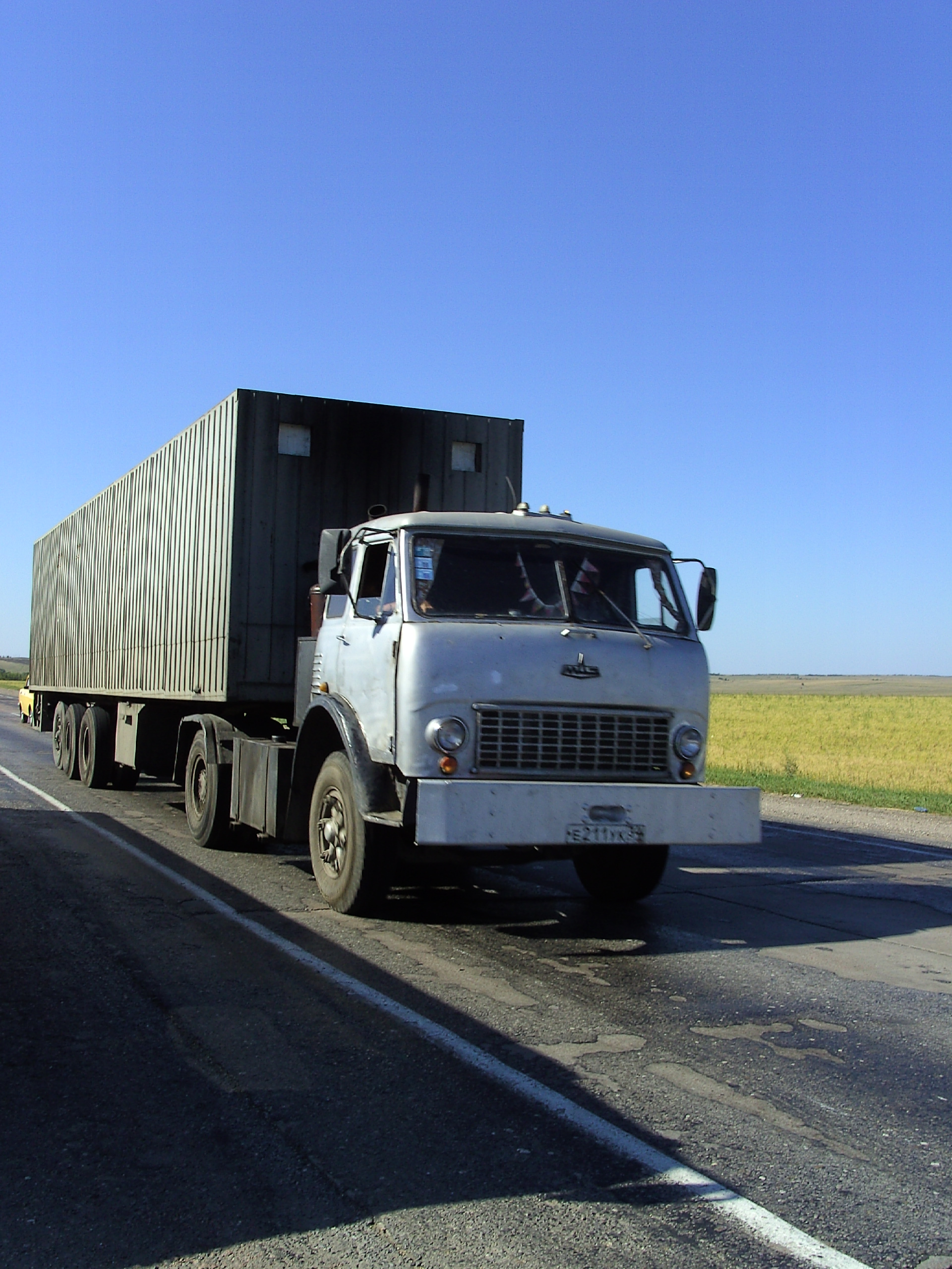 A MAZ-504 (МАЗ-504) in Russia.